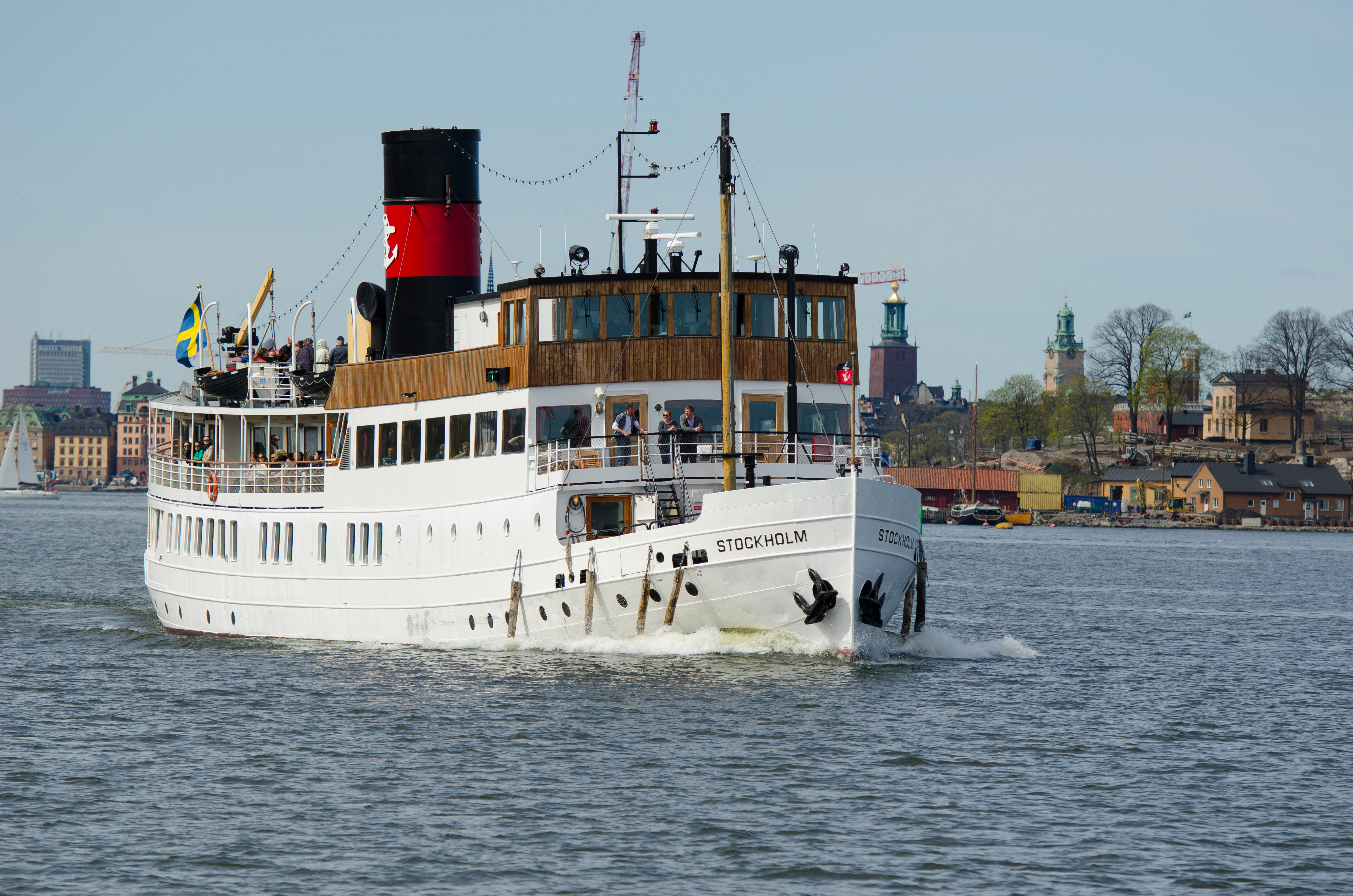 S/S Stockholm.